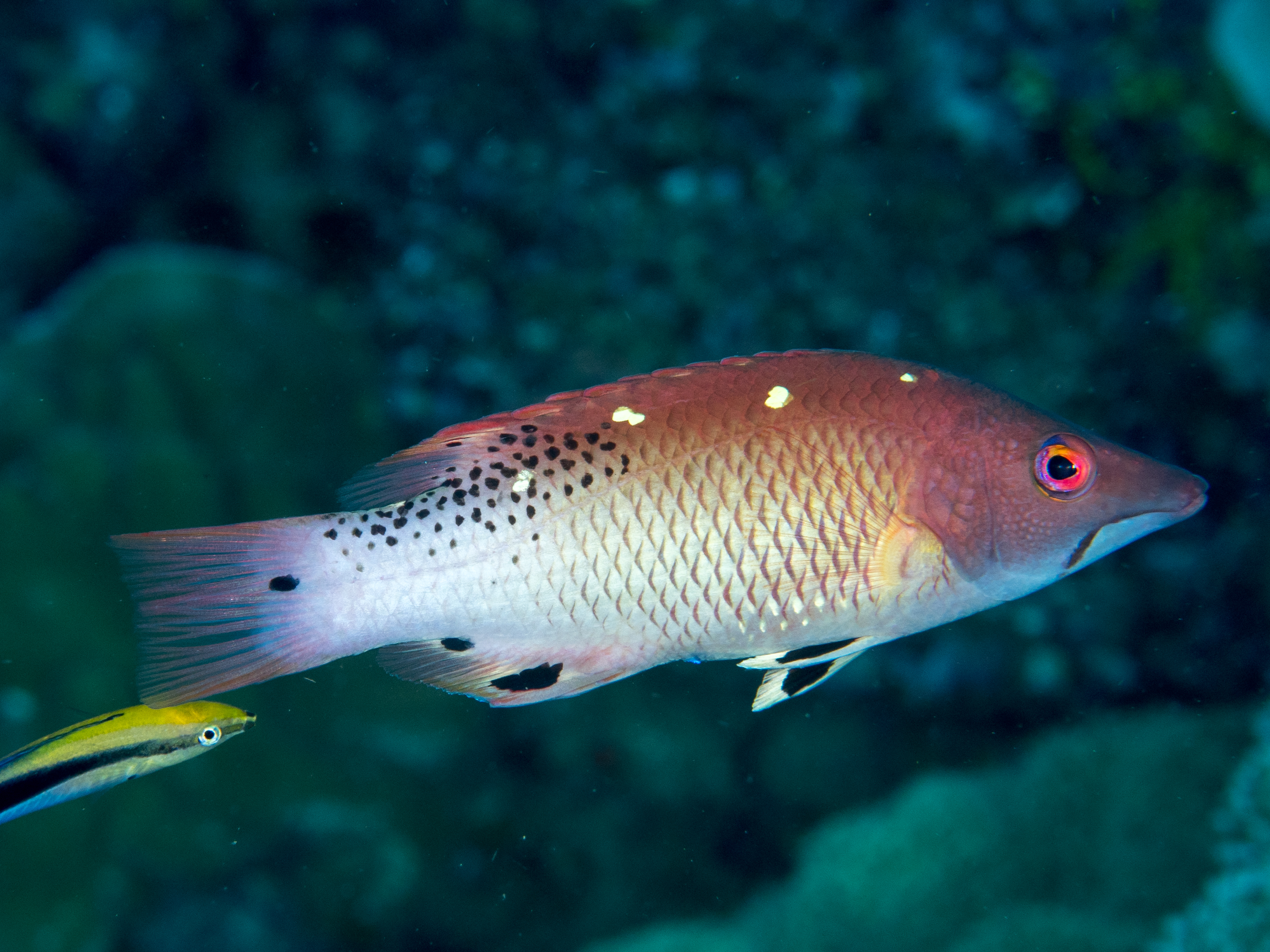 Morotai, Indonesia - Redfin hogfish (Bodianus dictynna)